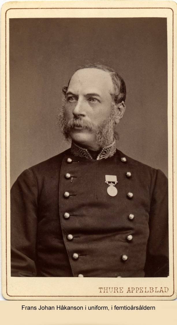 Frans Johan Håkansson